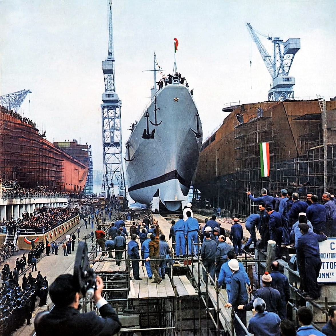 The launch of the cruiser Vittorio Veneto (C 550)